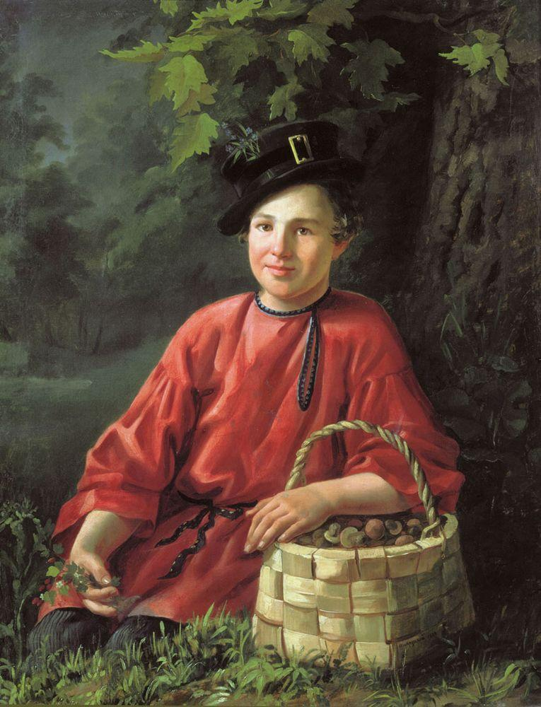 Portrait of a boy